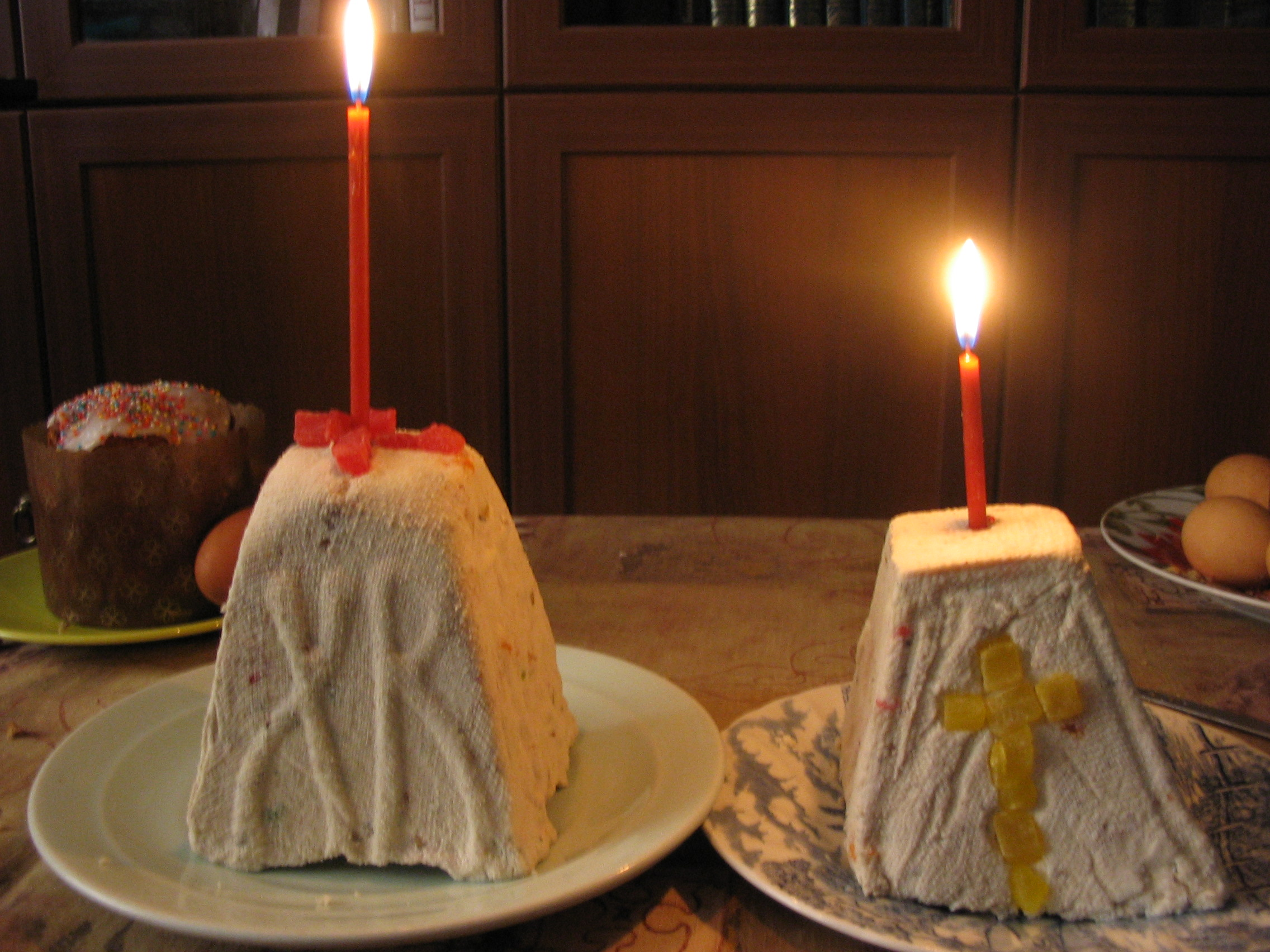 Two traditional Russian curd paskhas, with kulichs and easter eggs in the background